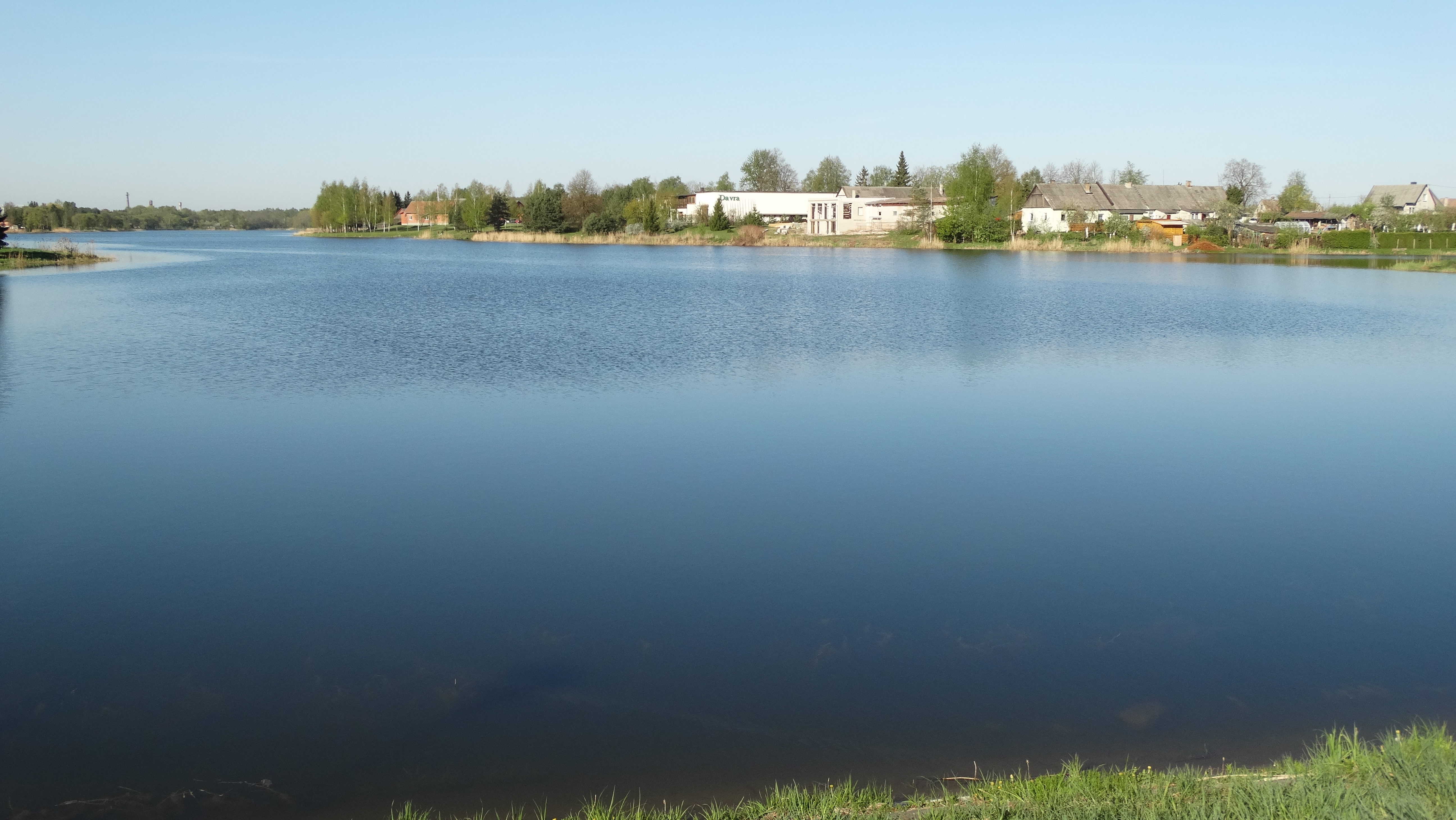 Pond, Pakruojis, Lithuania